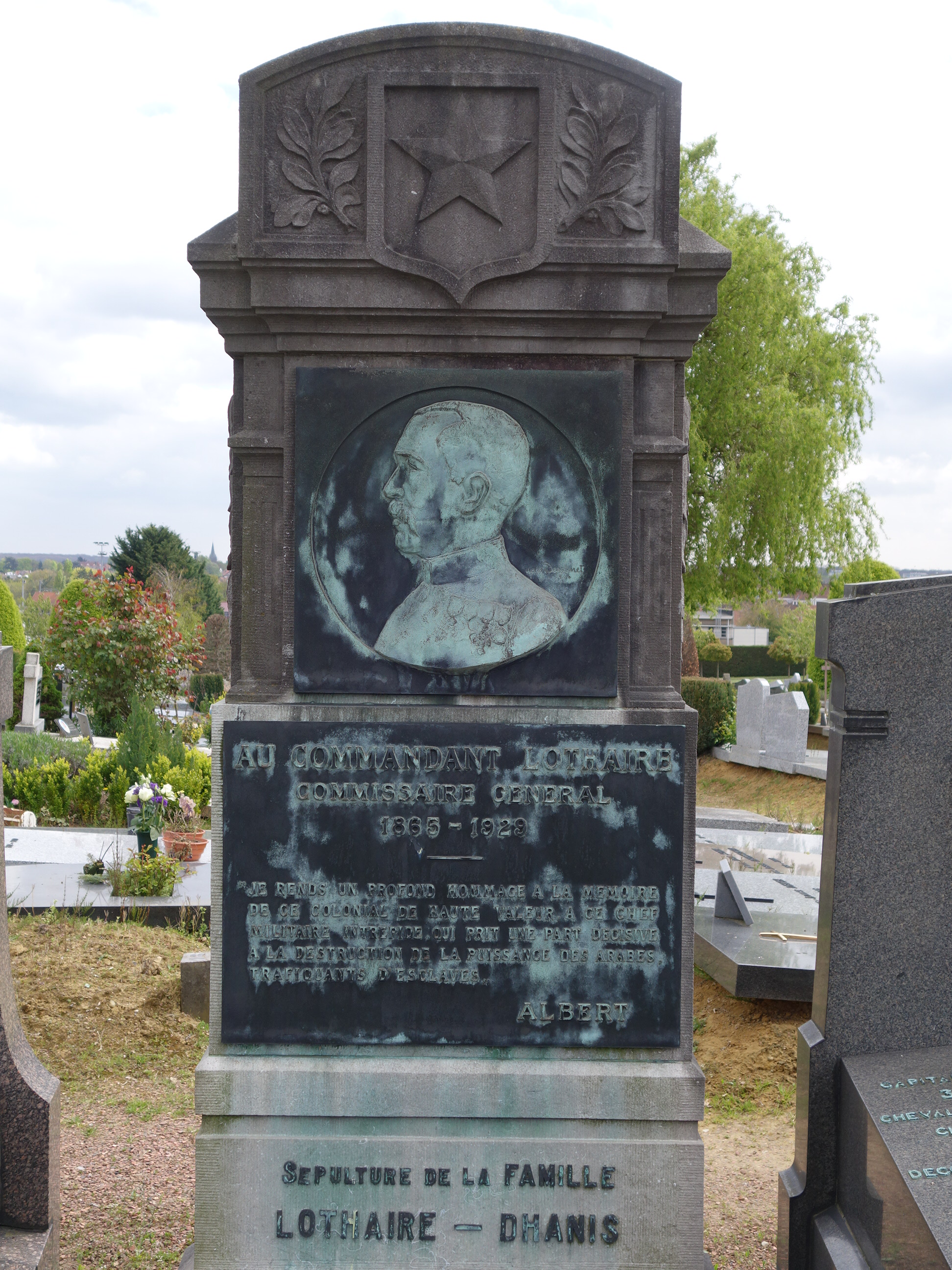 Ixelles Cemetery